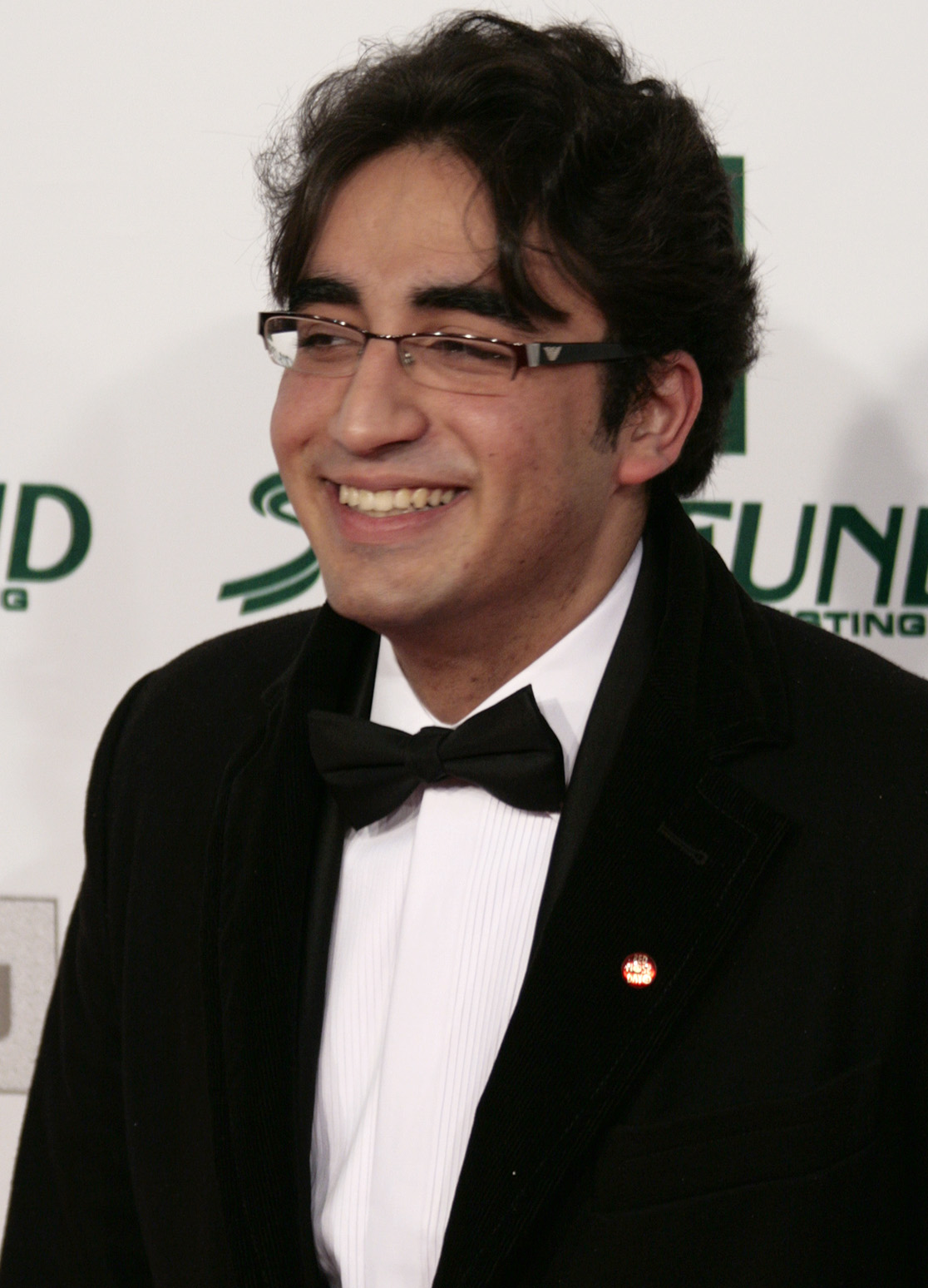 Bilawal Bhutto Zardari at the Women's World Award 2009 (Wiener Stadthalle, Vienna, Austria).